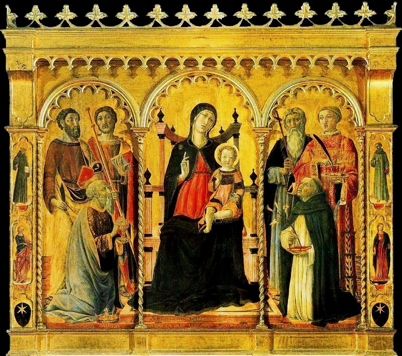 Vecchietta - Madonna and Child with saints - 1457 - Uffizi.